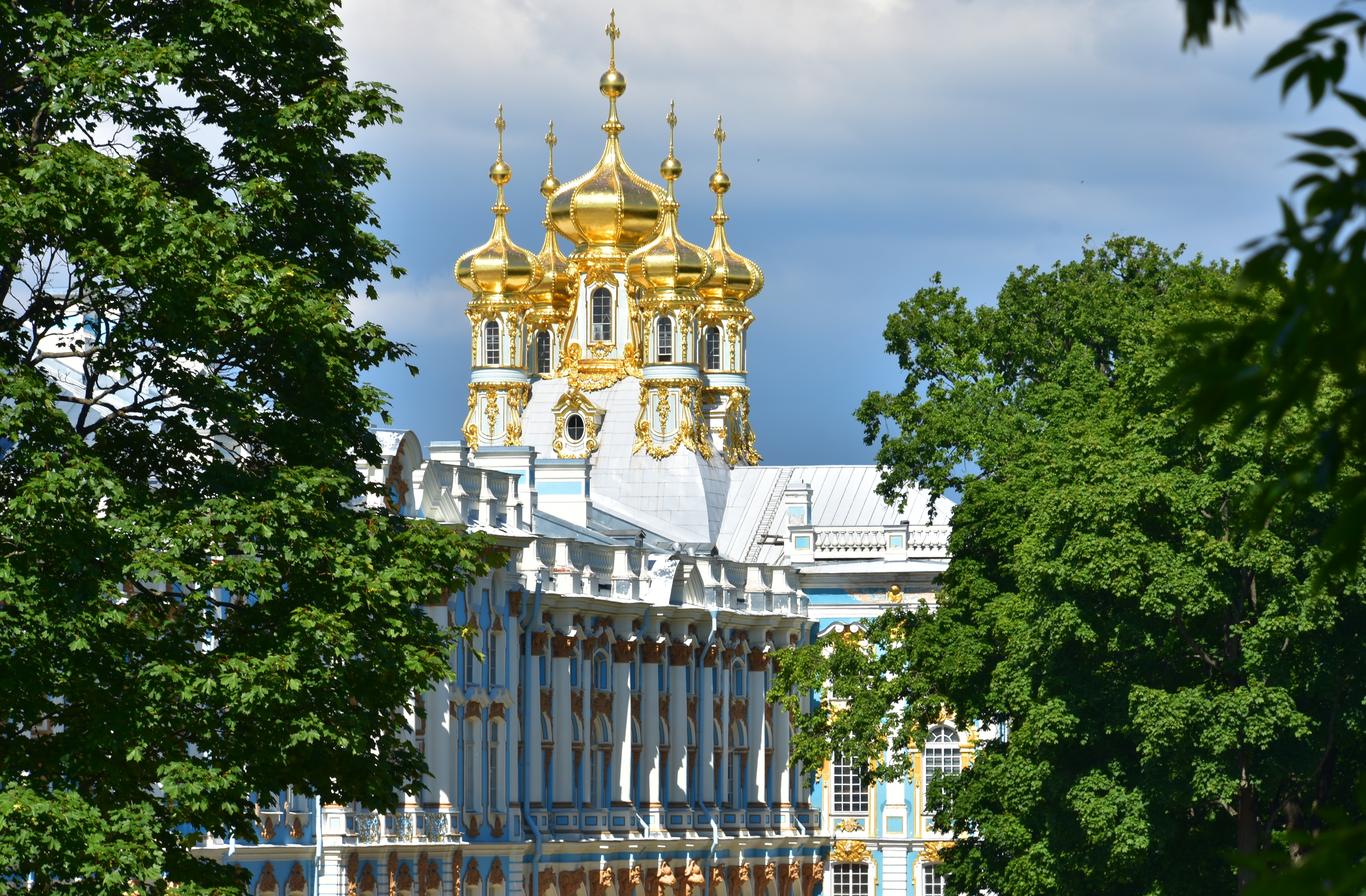 Catherine Palace at Tsarskoe Selo, 18th century (110)